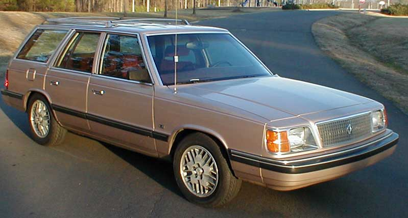 1985-1988 Plymouth Reliant Station Wagon, late model